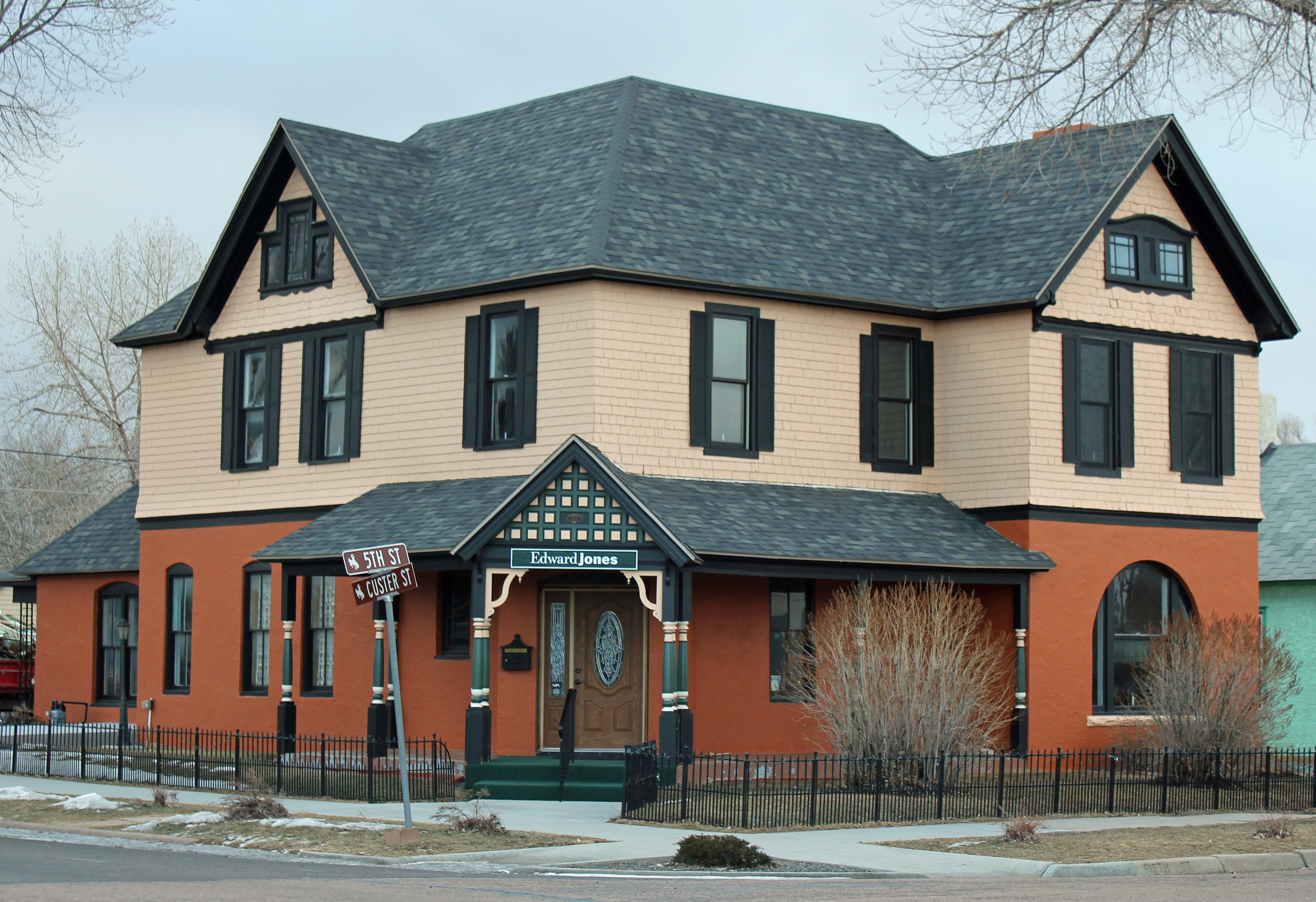 It's in Laramie, Albany County, Wyoming, and it's listed on the National Register of Historic Places.